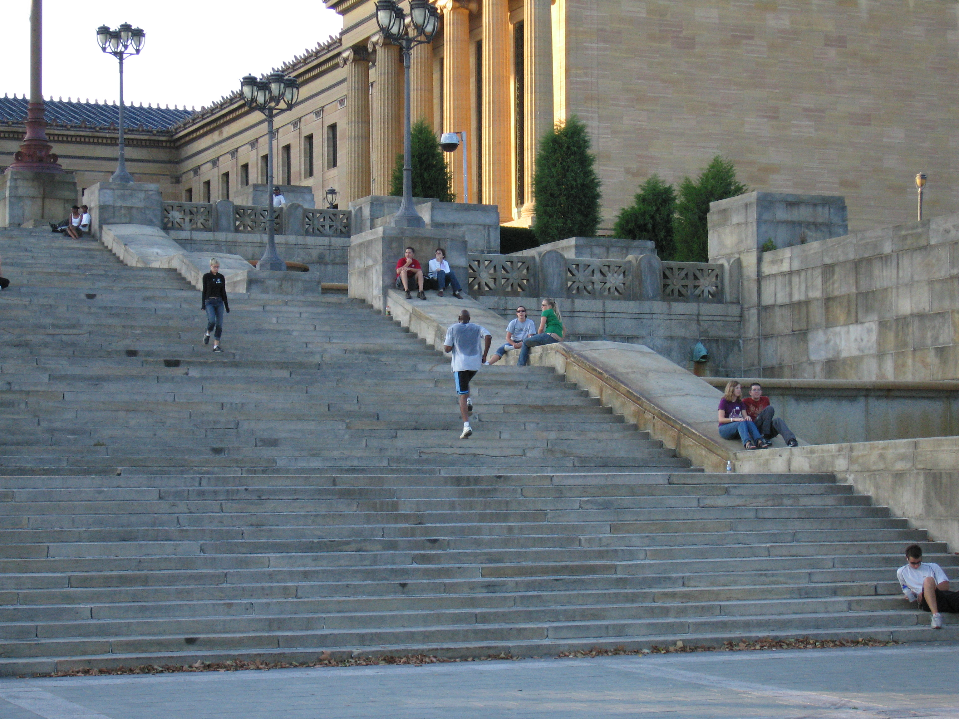 Steps of the Museum of Art, Philadelphia, USARocky